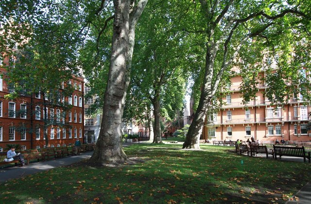 Mount Street Gardens, London W1